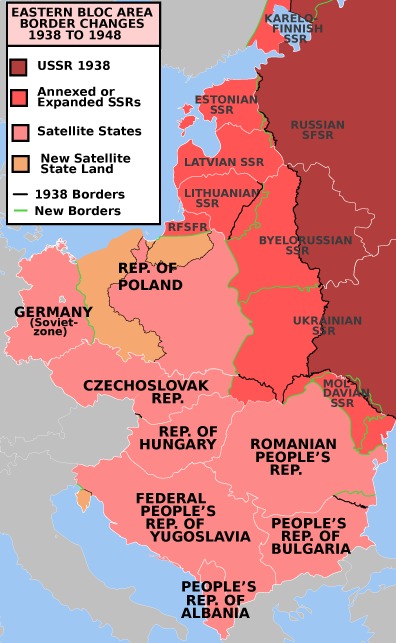 Description: Former Eastern Bloc area border changes between 1938 and 1948. Source: Map borders primarily based on File:EC12-1986 European Community map.svg and File:Blank map of Europe in 1920.svg. Author: Mosedschurte, June 1, 2009 The border and other changes include: The creation of the satellite states (note: this was before the Tito-Stalin split and the Hoxha 1960 split) The annexation of the Baltic states The annexation of the Moldavian SSR The Transnistria exchange between the Ukrainian SSR and the Moldavian SSR The annexation of northern Bukovina, the Hertza region and northern Bessarabia. The annexation of the Izmail Oblast The Territories of Poland annexed by the Soviet Union The transfer of part of East Prussia and the territories east of the Oder-Neisse line from Germany to Poland The annexation of the Kaliningrad Oblast The transfer of Southern Dobruja from Romania to Bulgaria The Bratislava Bridgehead transfer from Hungary to Czechoslovakia The transfer of the Latvian eastern Abrene district to the RSFSR The transfer of Estonian territories north and South of Lake Peipus to the RSFSR The annexation of the Vilnius region from Poland to the Lithuanian SSR The annexation of part of the Karelo-Finnish SSR The annexation of Carpathian Ruthenia The transfer of the Italian Istria peninsula to Yugoslavia.